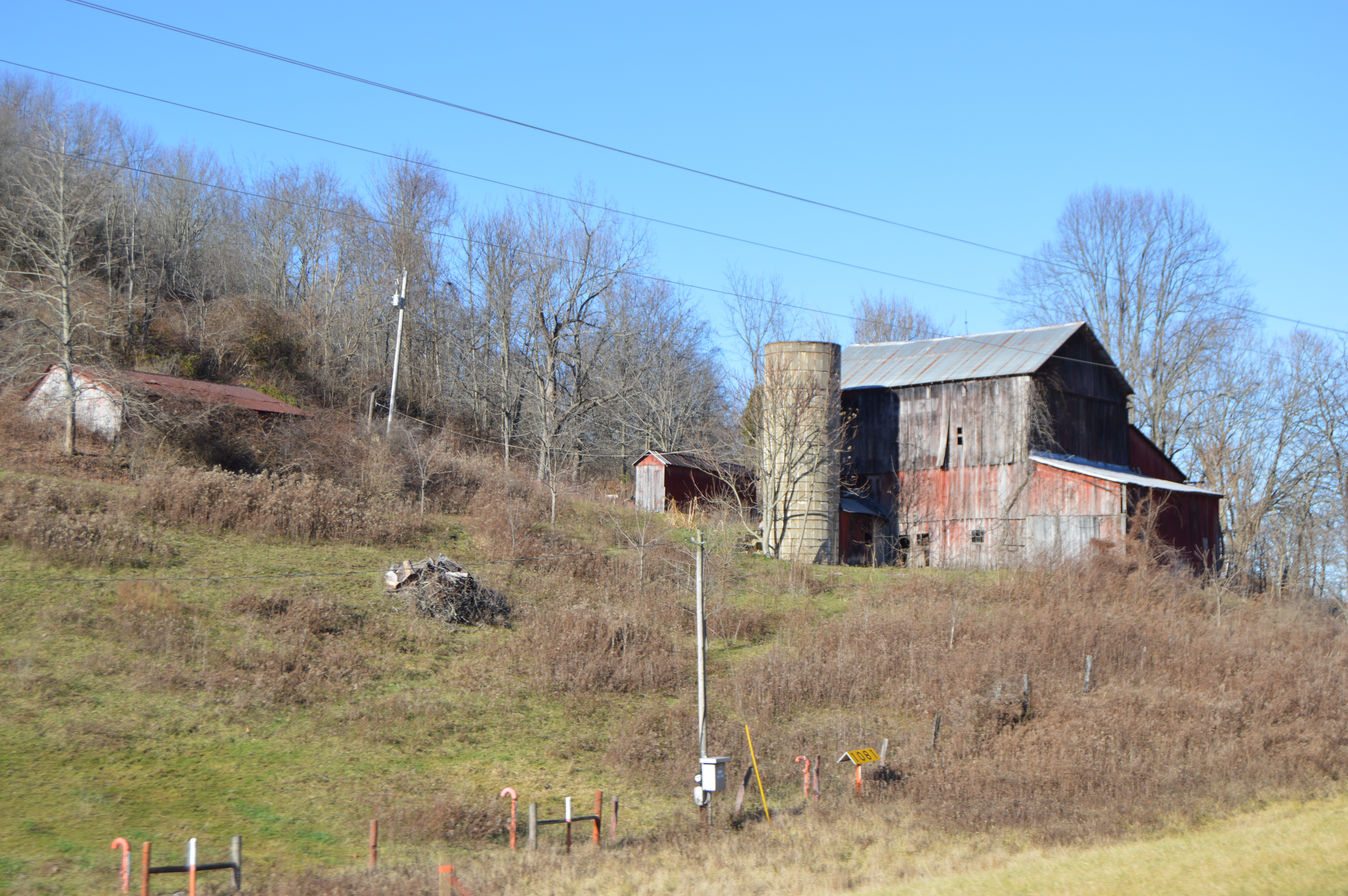 A barn and silo at a farmstead on the western side of State Route 78 in the southwestern corner of Seneca Township, Monroe County, Ohio, United States.